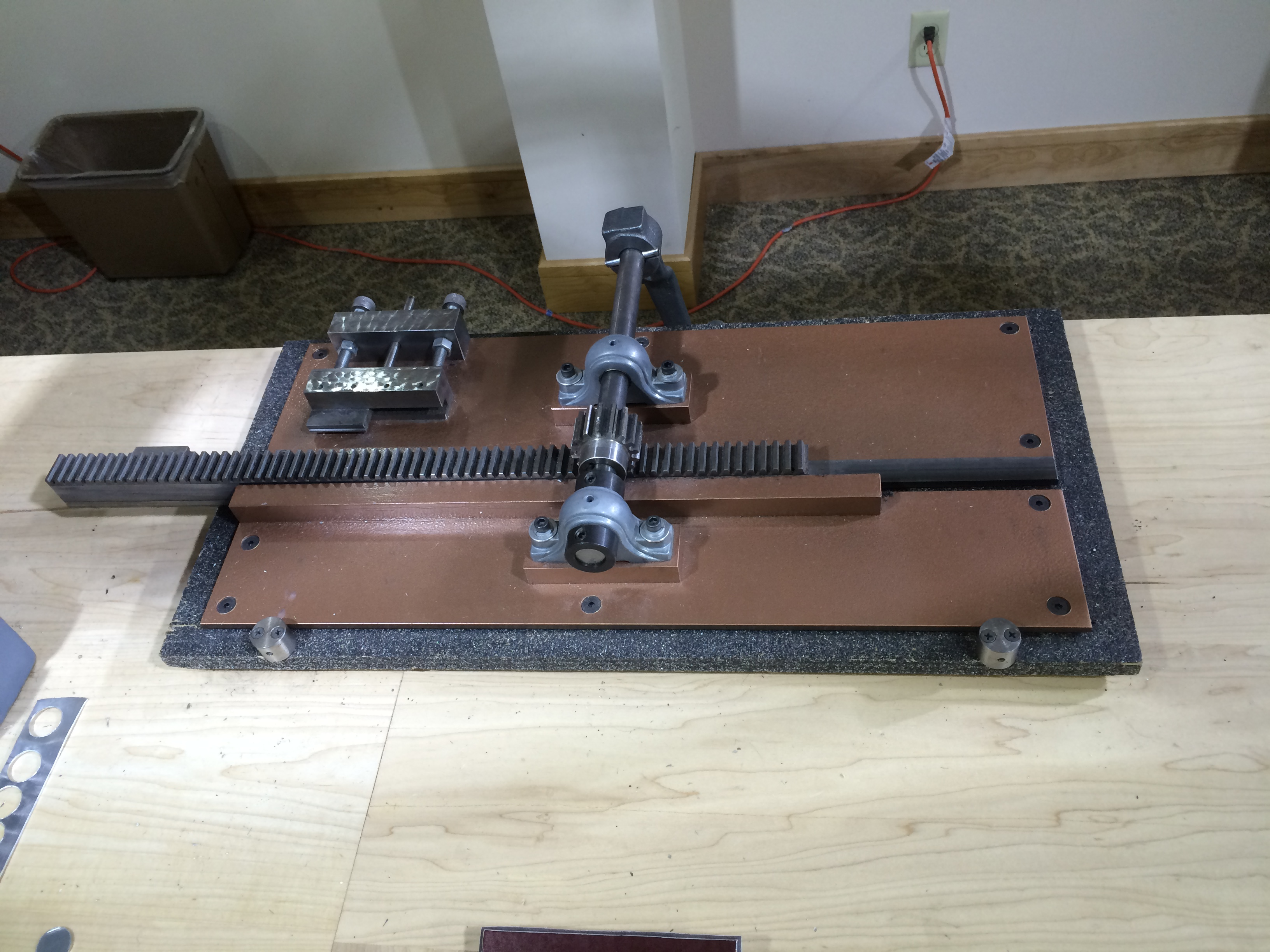 A Castaing machine, on exhibit and sometimes used at the ANA Money Museum, Colorado Springs CO